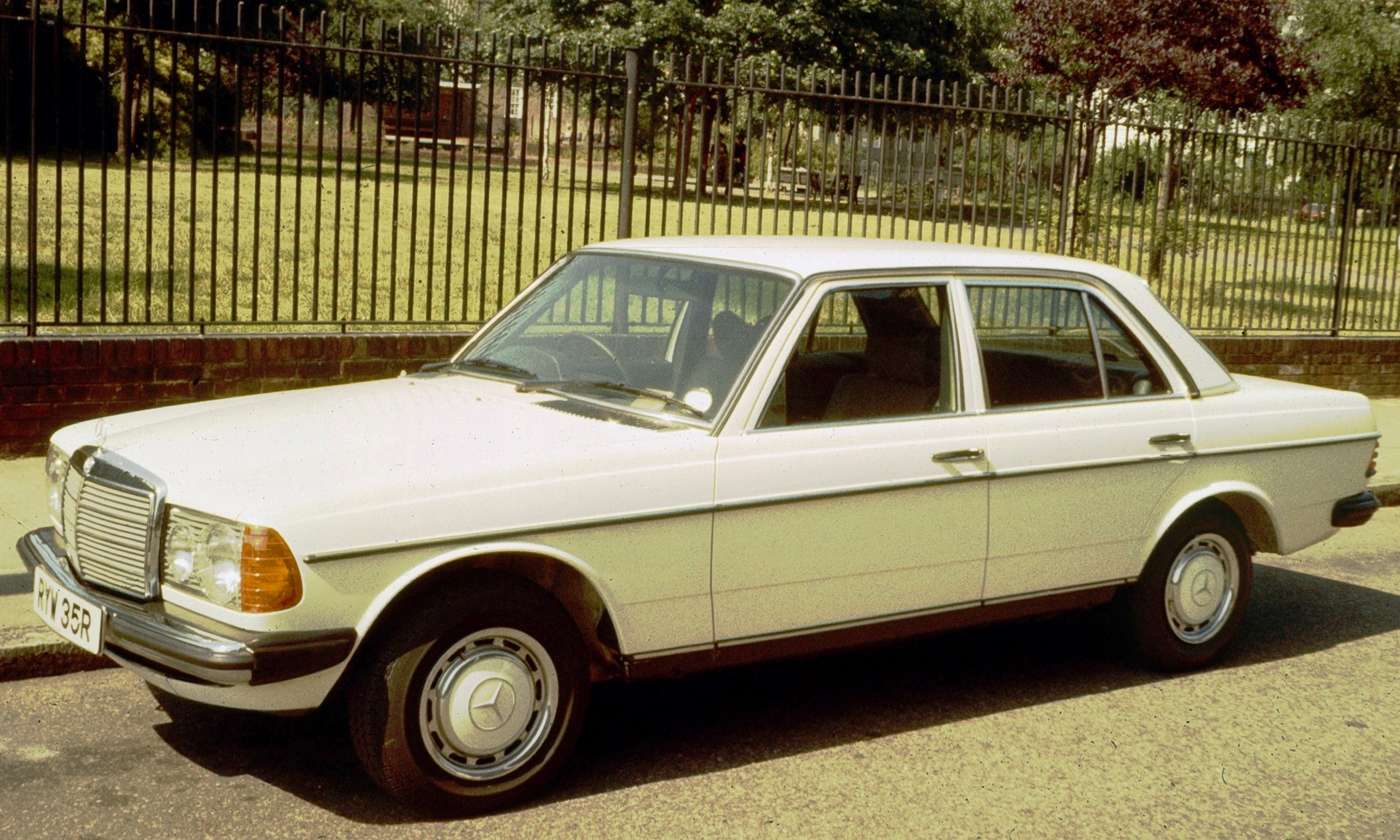 Mercedes Benz E Class (UK) According to the DVLA it's a 230 model.